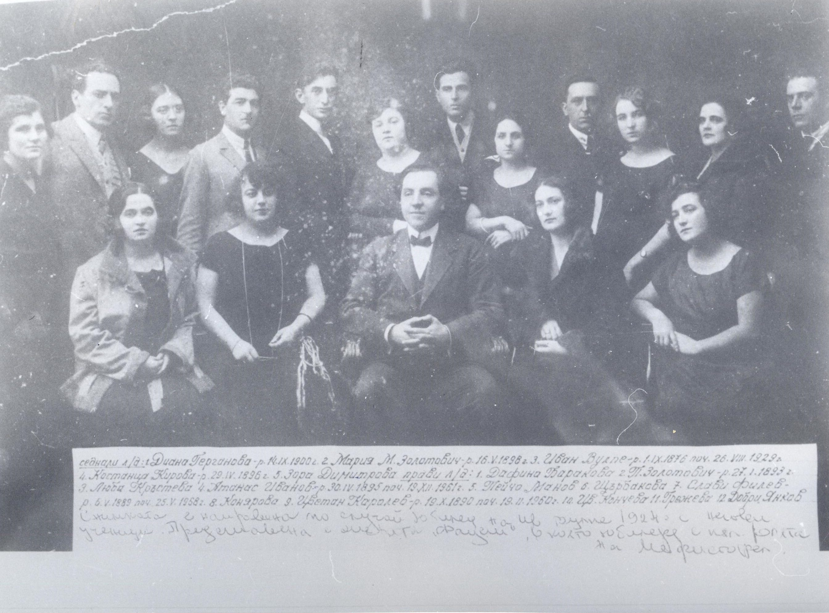 Diana_Gerganova,_Maria_Zolotovich,_Ivan_Vulpe,_Konstantsa_Kirova,_Zora_Dimitrova,_Dafina_Barakova,_P._Zolotovich,_Lyuba_Krasteva,_Atanas_Ivanov,_Peycho_Manov,_Shtarbakova, Slavi Filev, Konyarova, Tsvetan Karolev, Tsv. Kancheva, Grezheva, Dobri Yankov